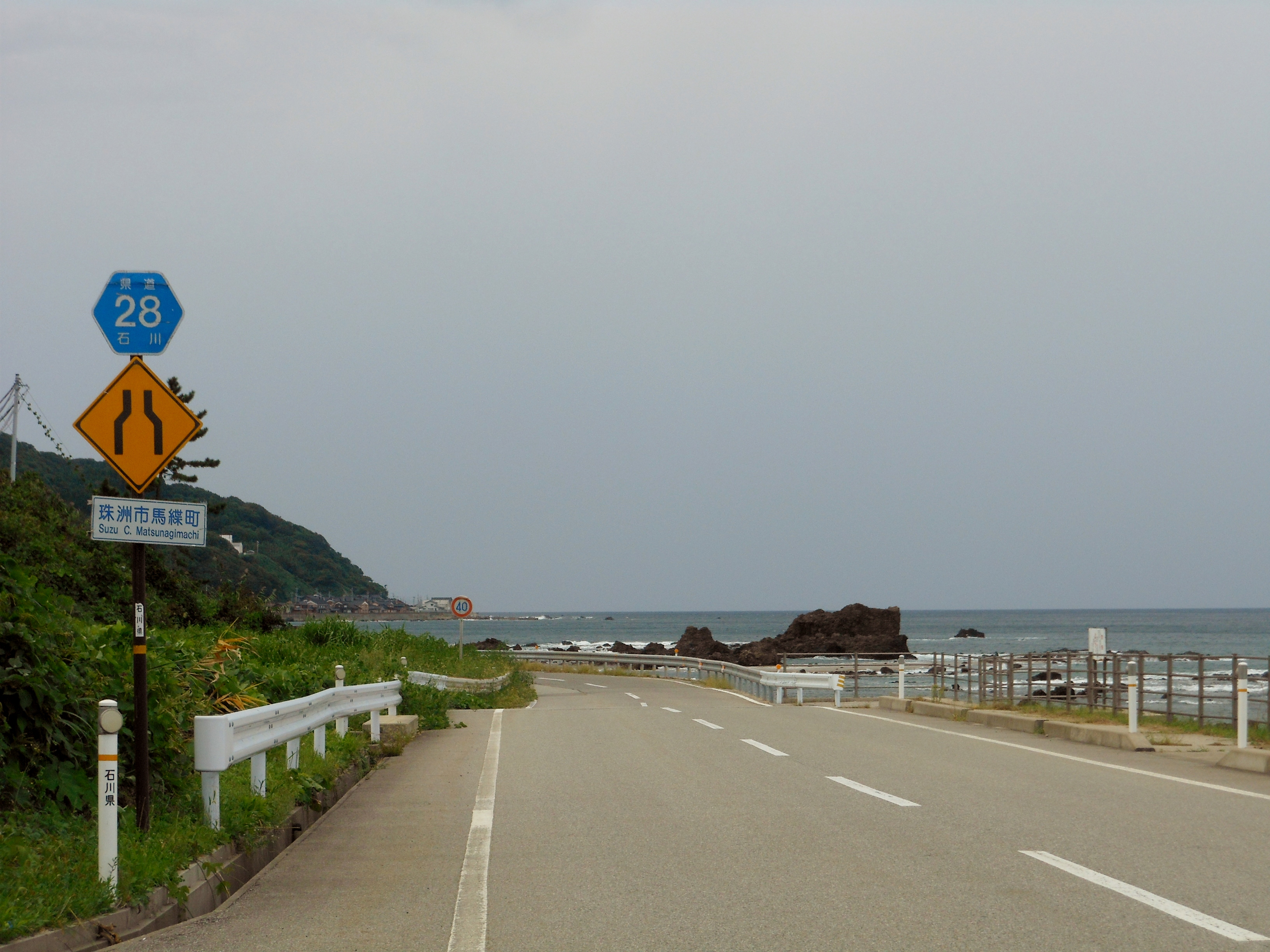 This is a landscape of Ishikawa prefectural road No.28 Ohtani-Noroshi-Iida Line in Matsunagi-machi, Suzu city, Ishikawa prefecture, Japan.